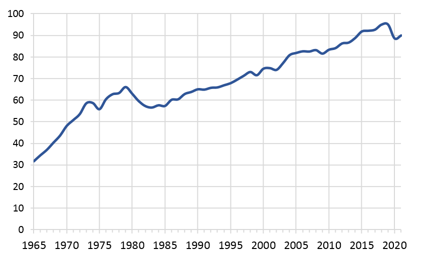 World Oil Production (millions of barrels per day) since 1965, based on data from